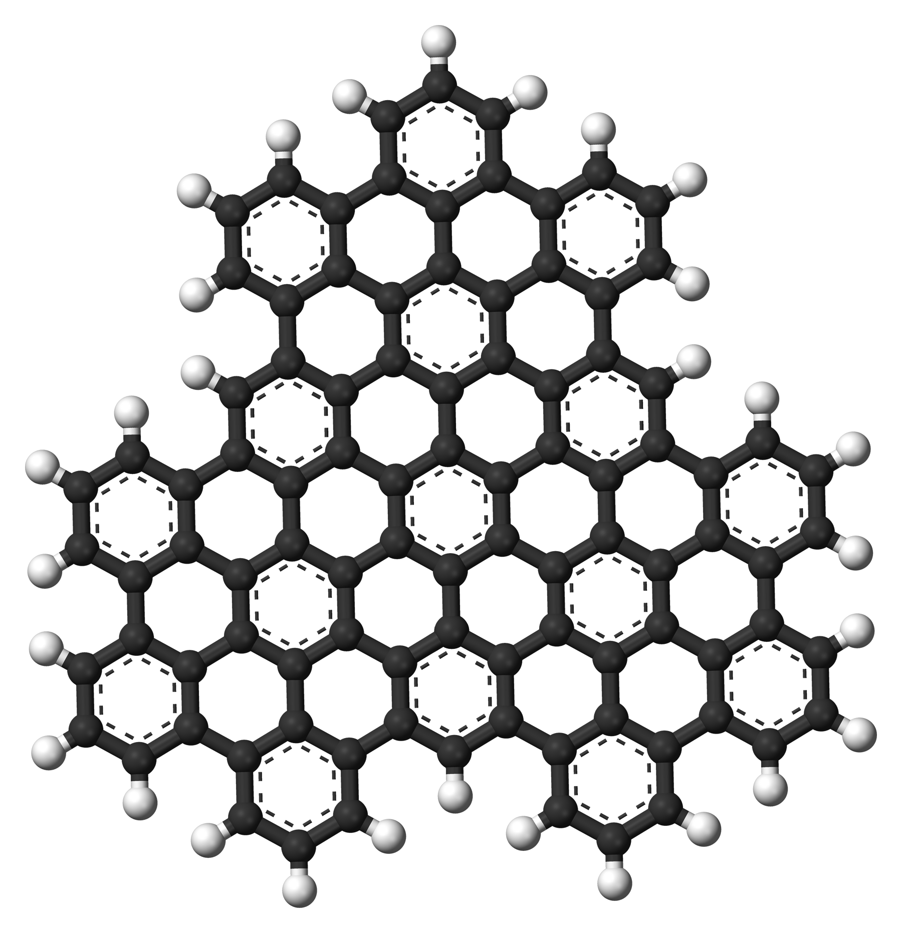 Ball-and-stick model of the superphenalene molecule.